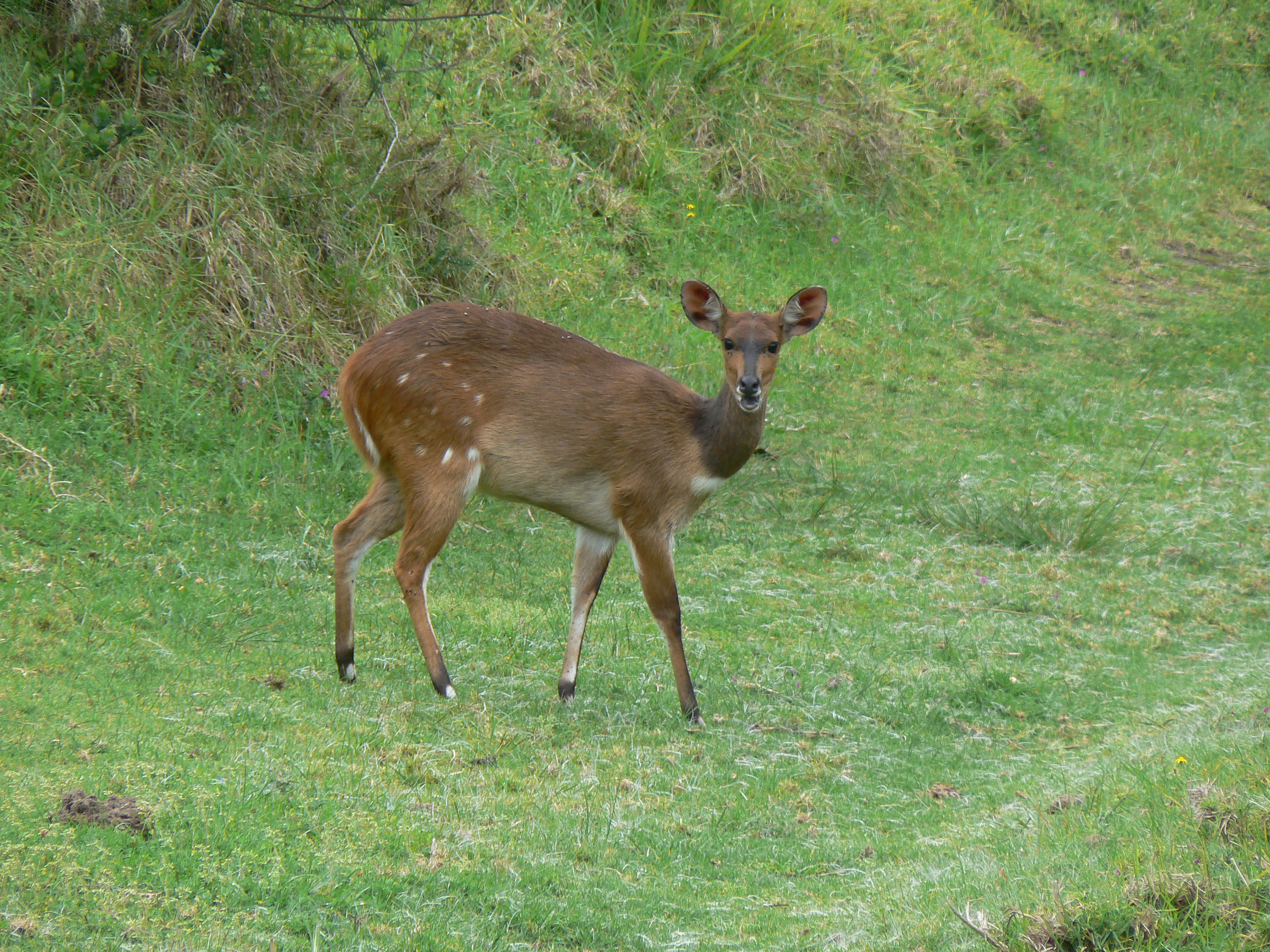 Female bushbuck at De Hoop Nature Reserve, Western Cape, South Africa